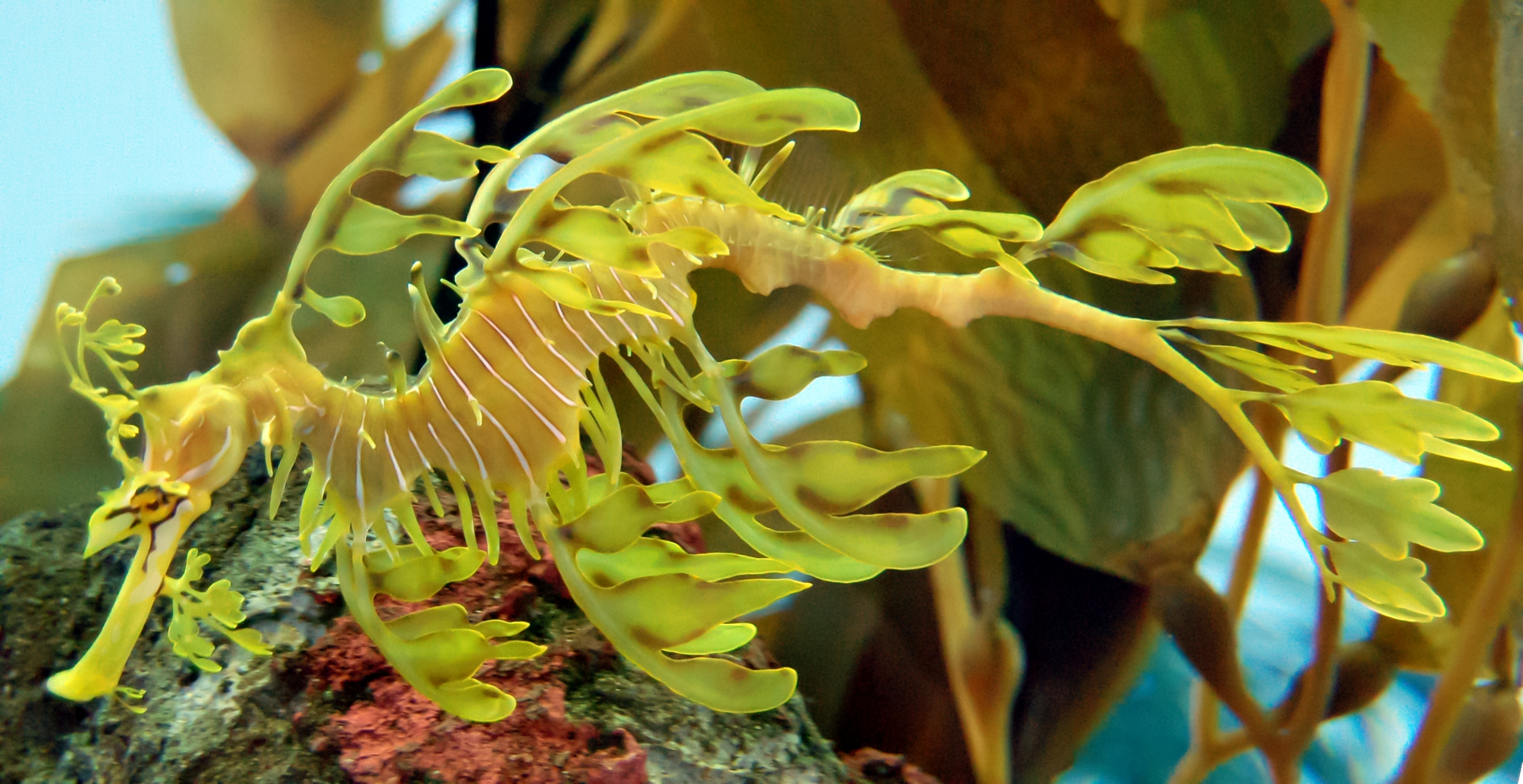 A photograph of a Leafy seadragon (Phycodurus eques en ). Photo taken at the Pittsburgh Zoo.